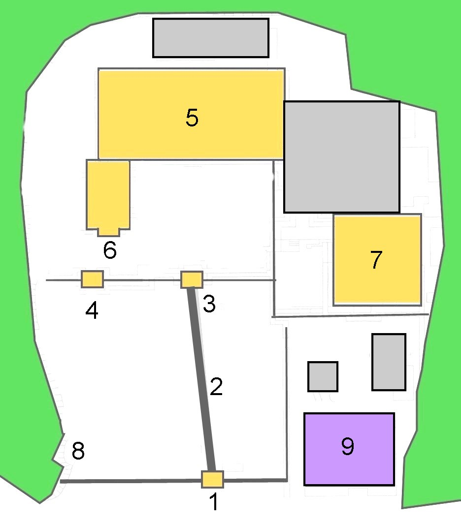 Sketch of layout of Zuiganji temple